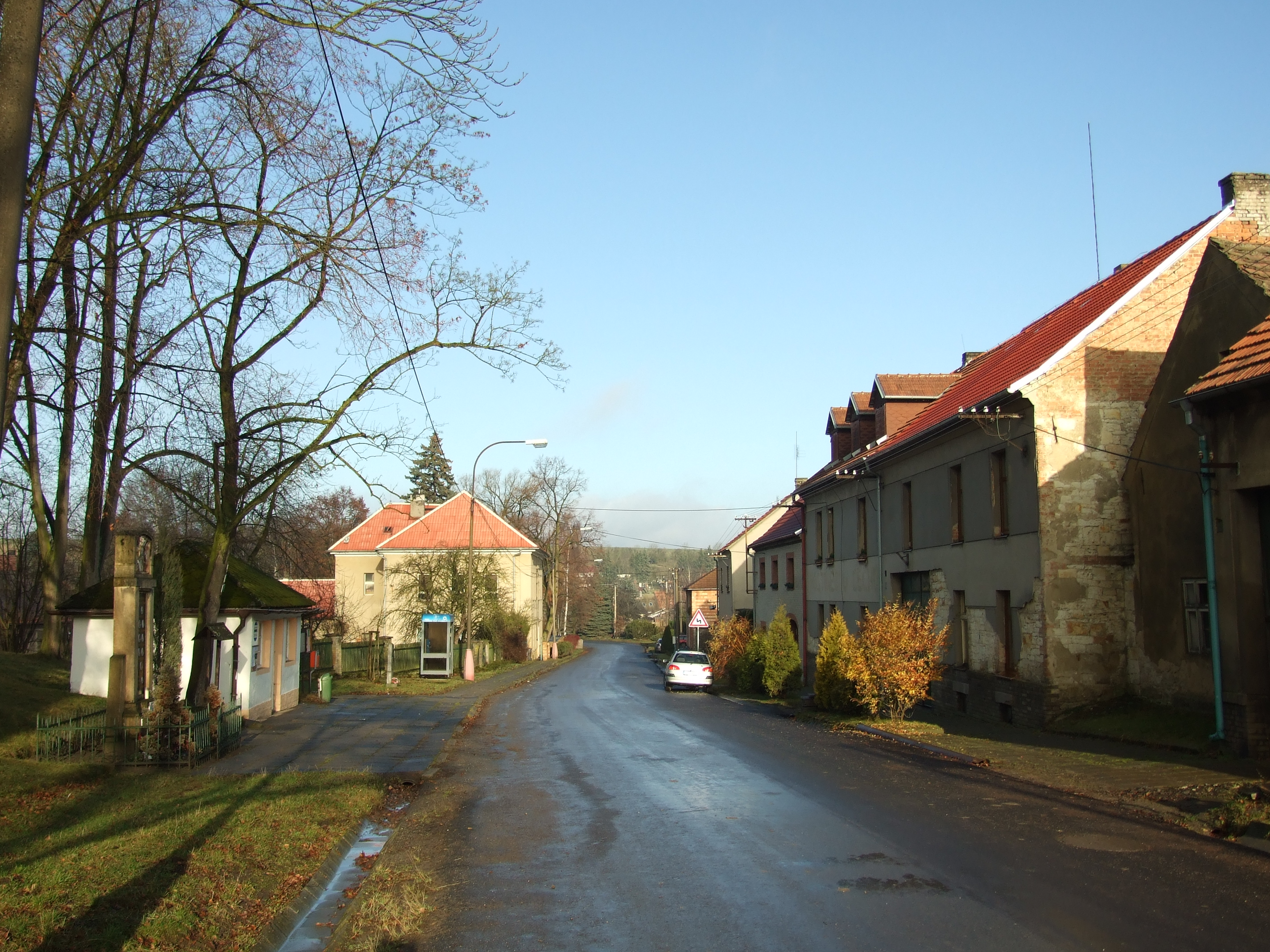 The village of Mšecké Žehrovice near Nové Strašecí, Central Bohemian Region, CZhelp